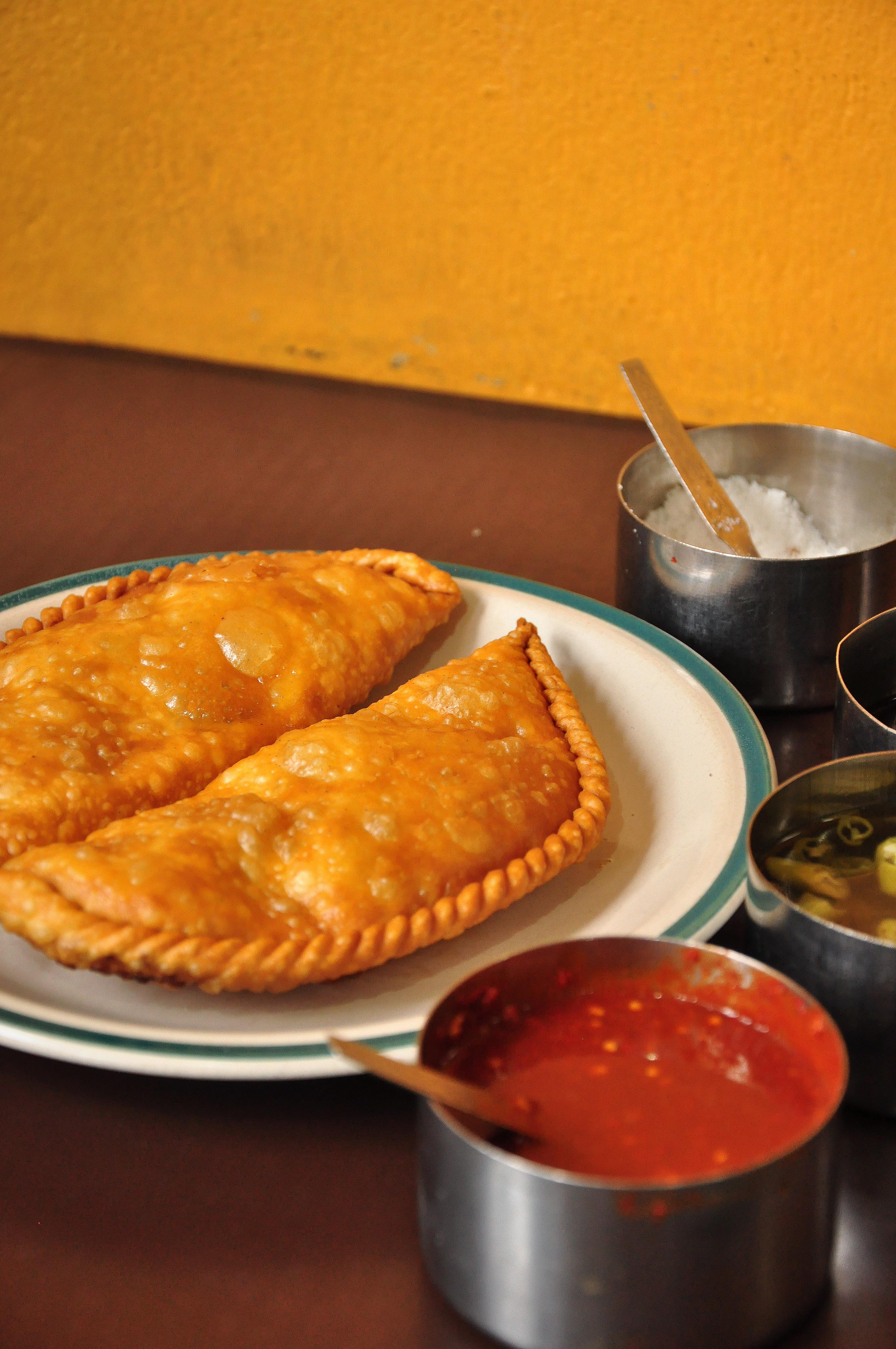 Syabhaley, A deep fried mince meat filled Tibetan snack in a restaurant in Kathmandu,Nepal